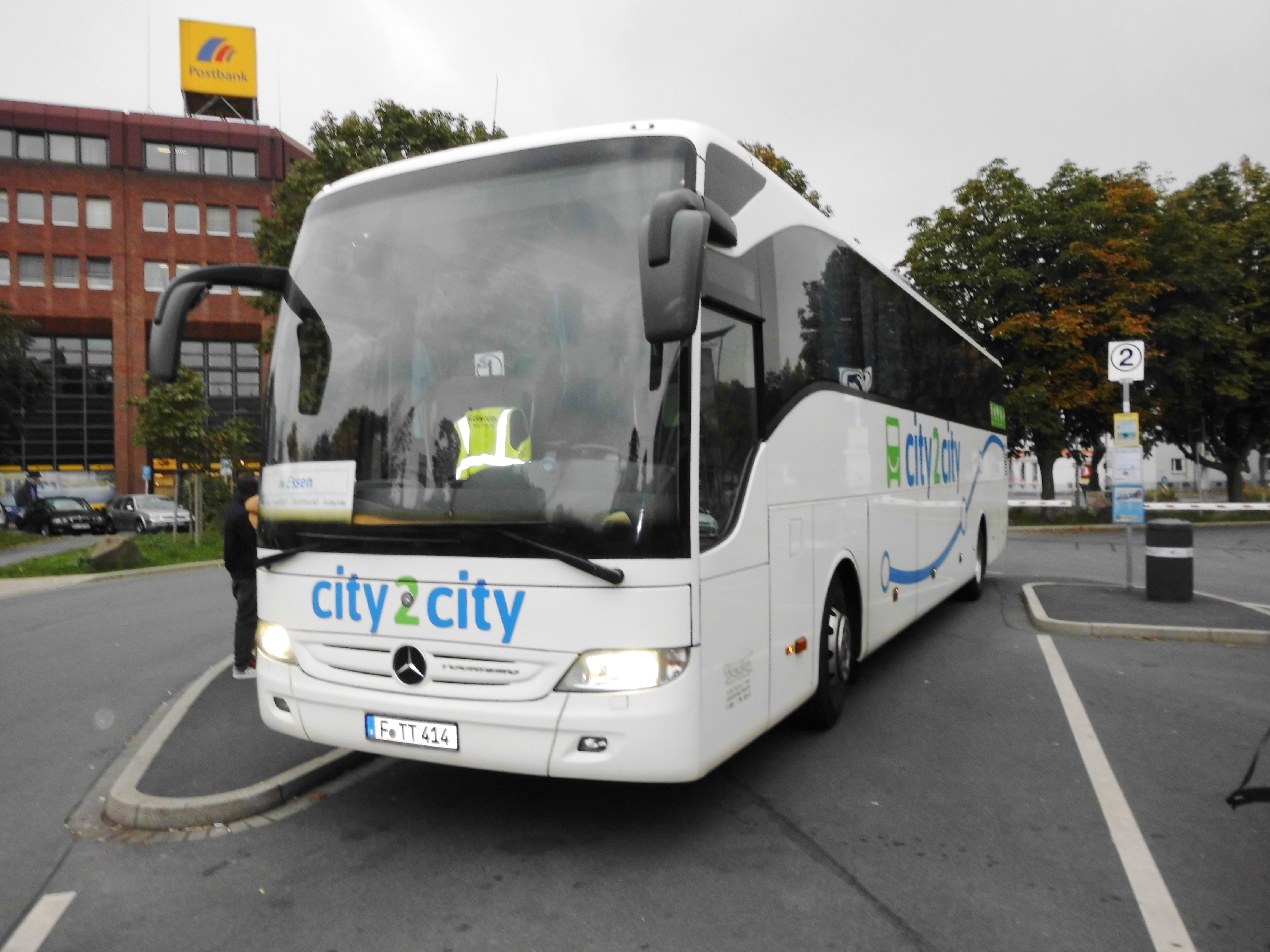 Bus von City2city